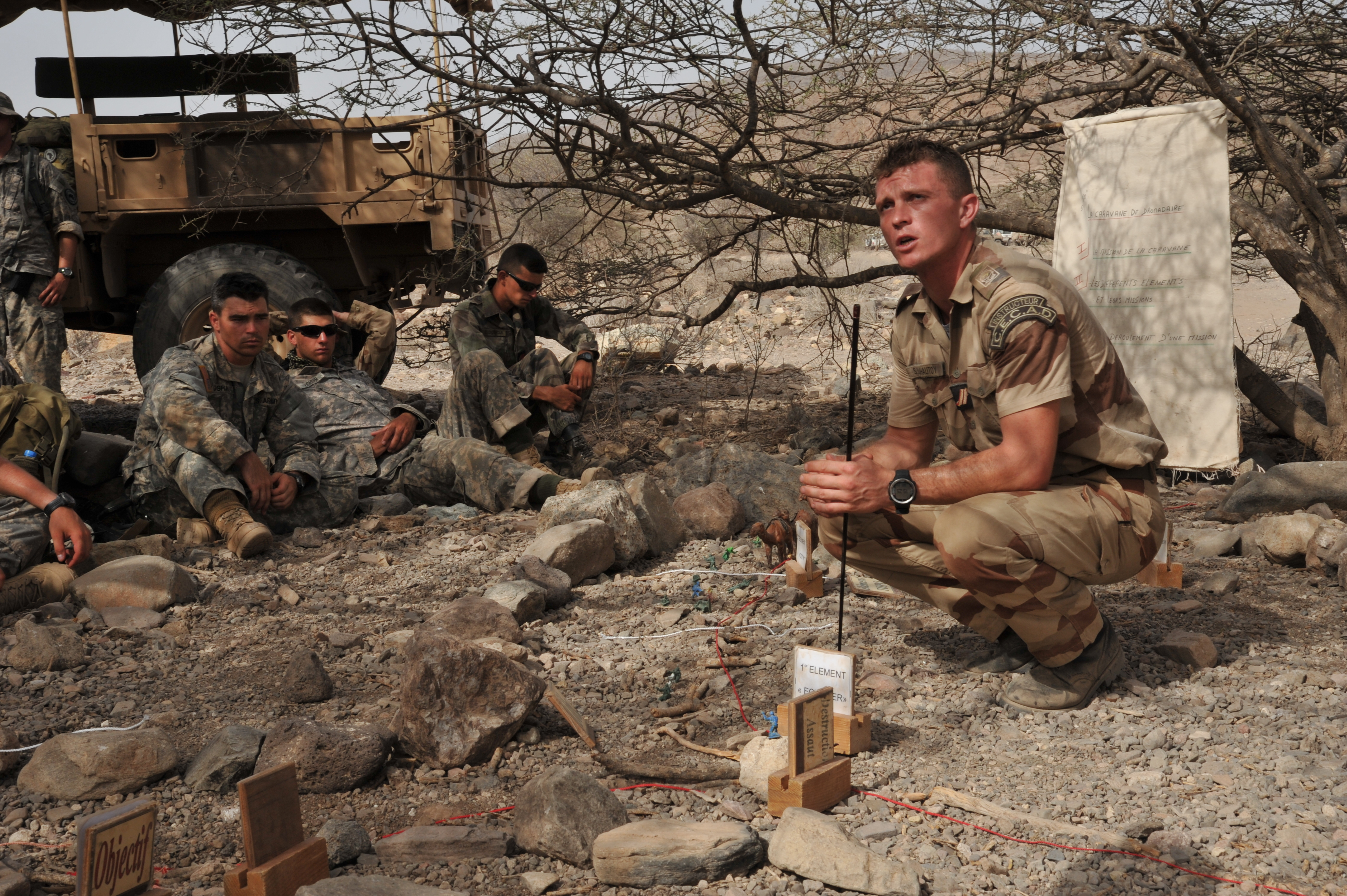 French marine Sgt. Sylvain Duhautoy, 5th French Marine Regiment - 5e régiment interarmes d'outre-mer (5e RIAOM) - , instructs desert survival course students in the deserts outside Djibouti, May 31, 2012. The ten day course taught by French Marines, was attended by U.S. service members where they learned desert survival and combat tactics. Read more